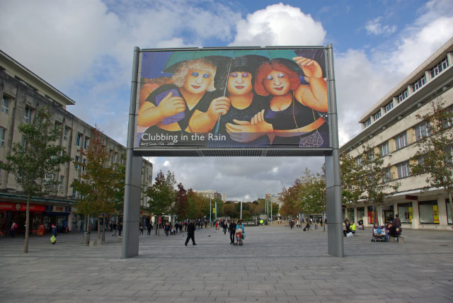 Armada Way, Plymouth Armada Way is a broad thoroughfare running north-south from the railway station to the Hoe - it is nowadays pedestrianised. The Second World War blitz, in which Plymouth's city centre was virtually destroyed, gave post-war planners the opportunity to open out the previous tightly packed street layout. A key figure in doing this was James Paton-Watson the City Engineer. Today, the post-war architecture is unfashionable but it is difficult not to be impressed by the original vision. In the foreground of this picture, taken from where Armada Way meets Royal Parade, a vast billboard celebrates the local artist, the late Beryl Cook, and her distinctive podgy female characters.